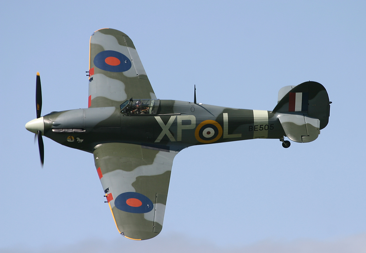 G-HHII "BE505" CCF Built Hurricane 2B. Shoreham Airshow August 2009